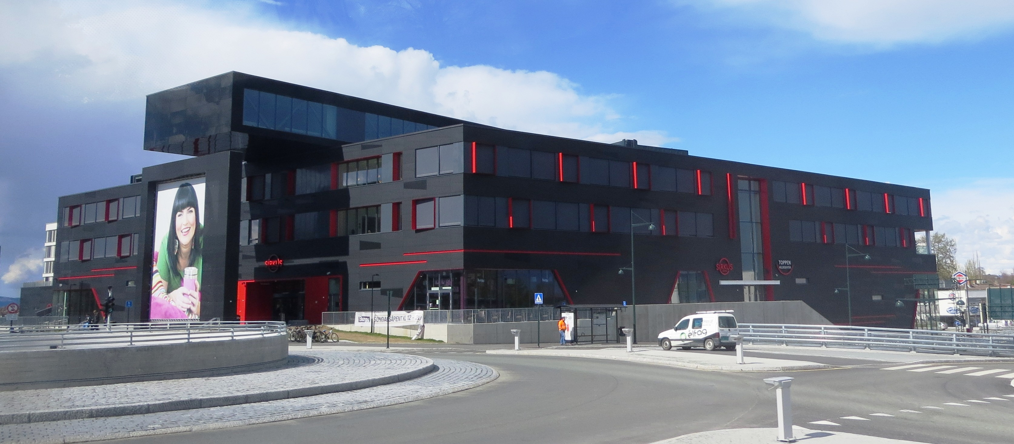 Image taken east of Lade, eastern Trondheim (Norway).